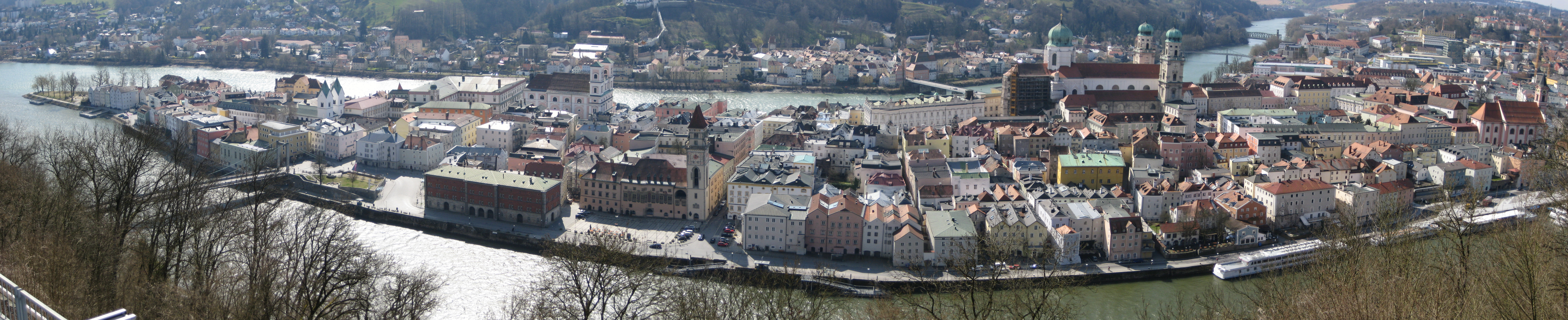 The Altstadt of Passau, seen from Veste Oberhaus Panorama Stitch